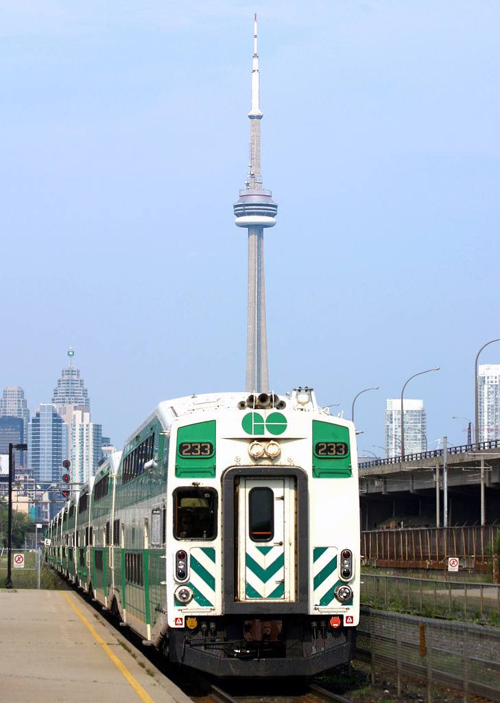 GO Train at Exhibition GO Station with a view of CN Tower in the background